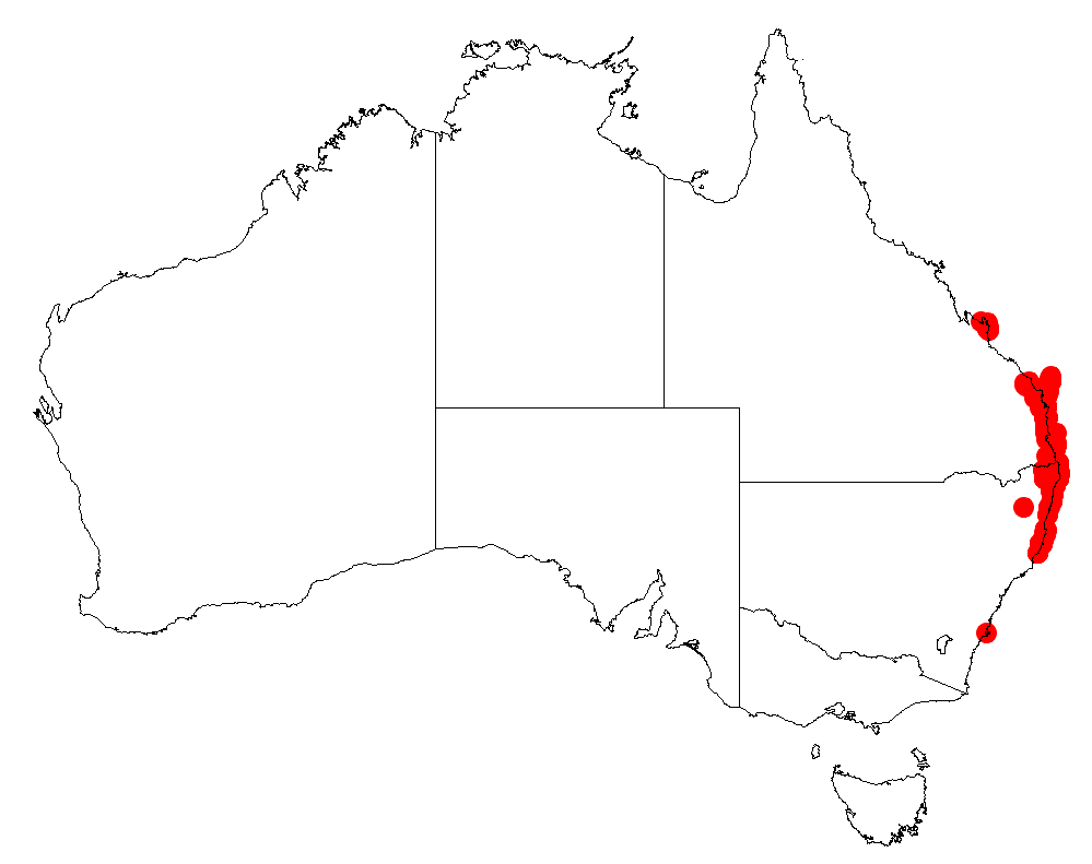 Homoranthus virgatus Occurrence data from AVH downloaded 28 September 2018